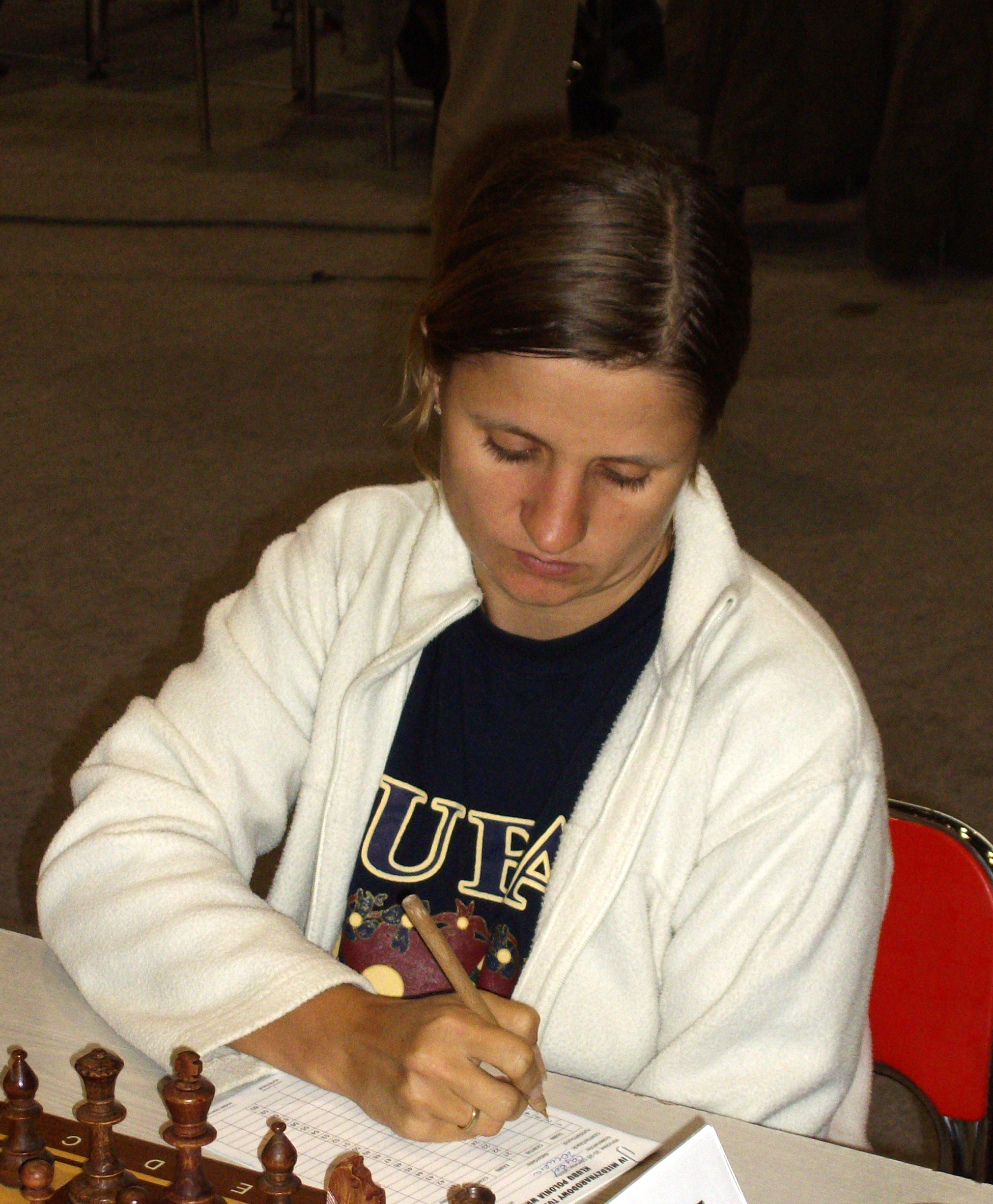 IM Anna Zozulia Belgium, IV International Chess Tournament "KS Polonia Wrocław" 2009